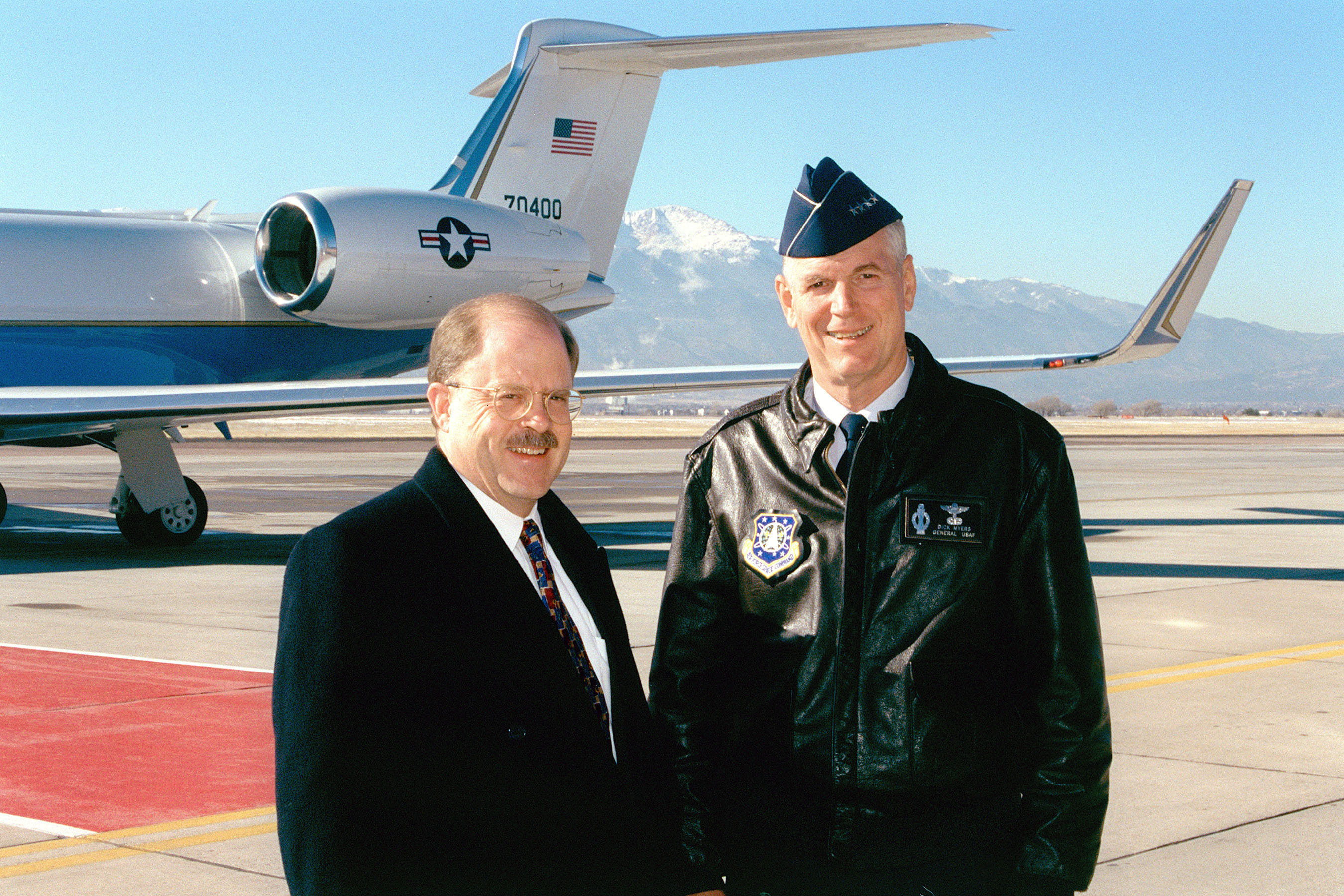 Commander of the North American Aerospace Defense Command (NORAD) General Richard B. Meyers and Secretary of the Air Force F. Whitten Peters pose for a photo at Peterson Air Force Base, Colorado.